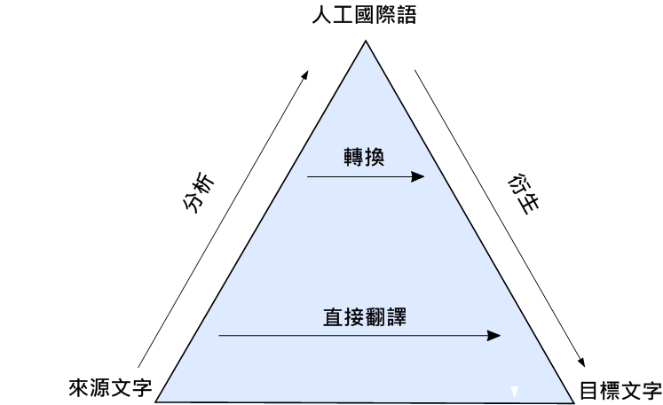 SVG originally created by FrancisTyers, translated by me (Arithmandar)